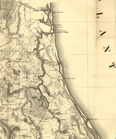 Section of a map showing the Territory of Florida created by the US Army Corps of Engineers, published in 1839. Collection of Library of Congress Geography and Map Division, Washington, D.C.